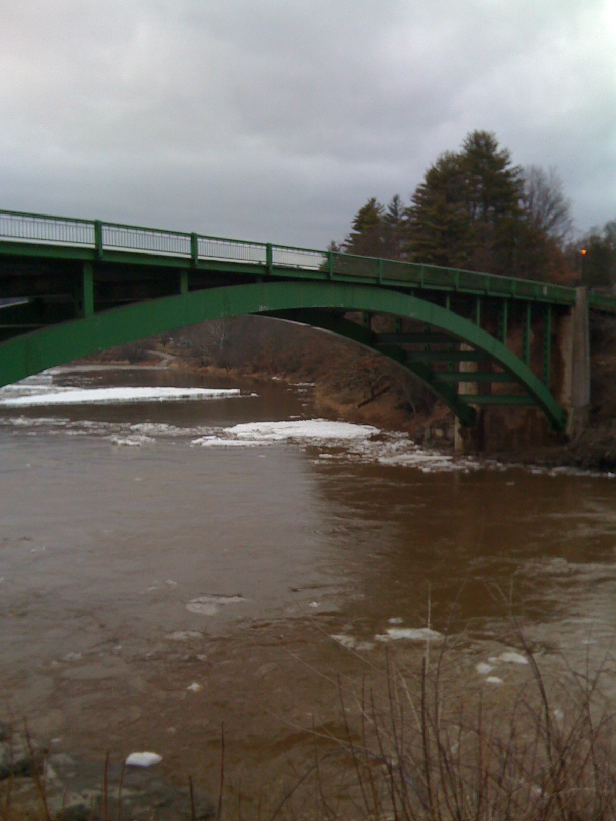 Narrowsburg-Darbytown bridge, taken from Narrowsburg, New York